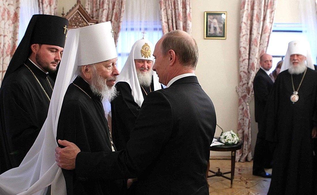 President Vladimir Putin meets with Metropolitan of Kiev - Vladimir (Sabodan)